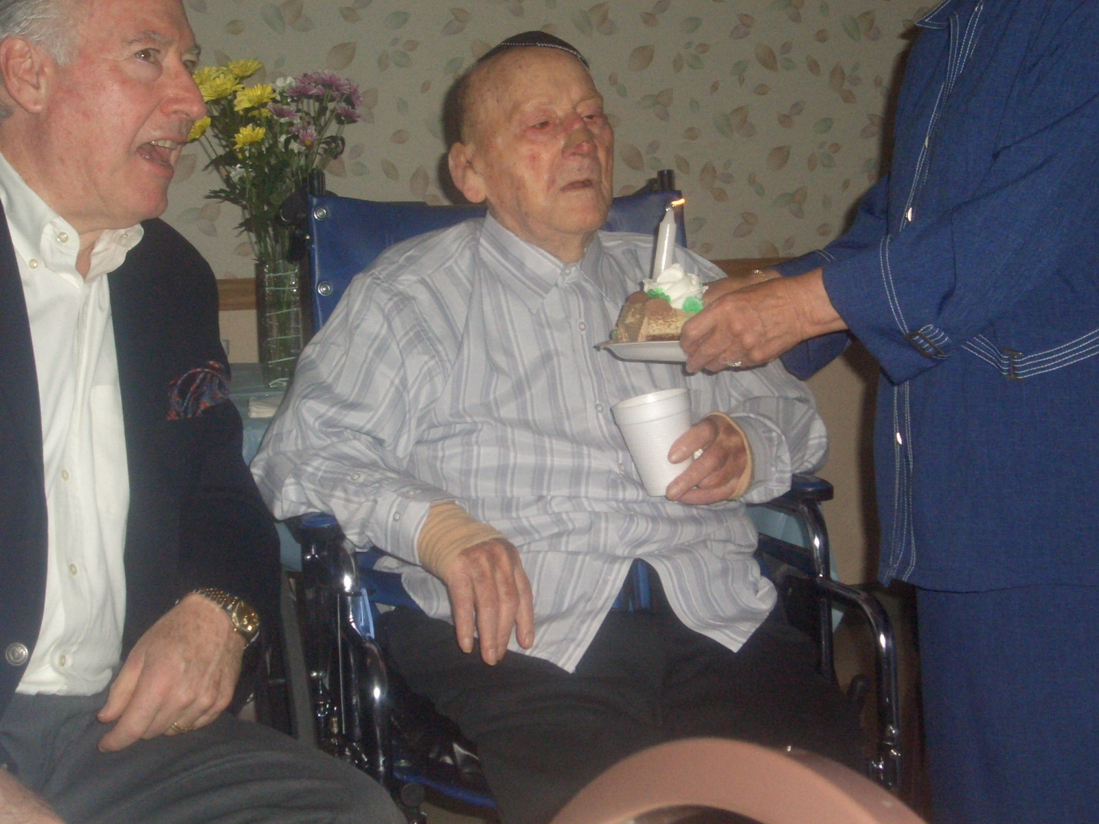 Photo by Jeffrey S Meltzer Taken @ Abe Coleman's 100th Birthday Party September 18, 2005